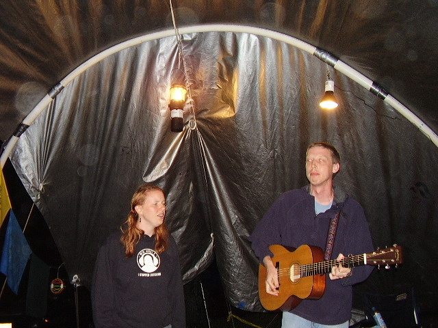 We're About 9 performing at the Budgiedome at the Falcon Ridge Folk Festival on July 23, 2006